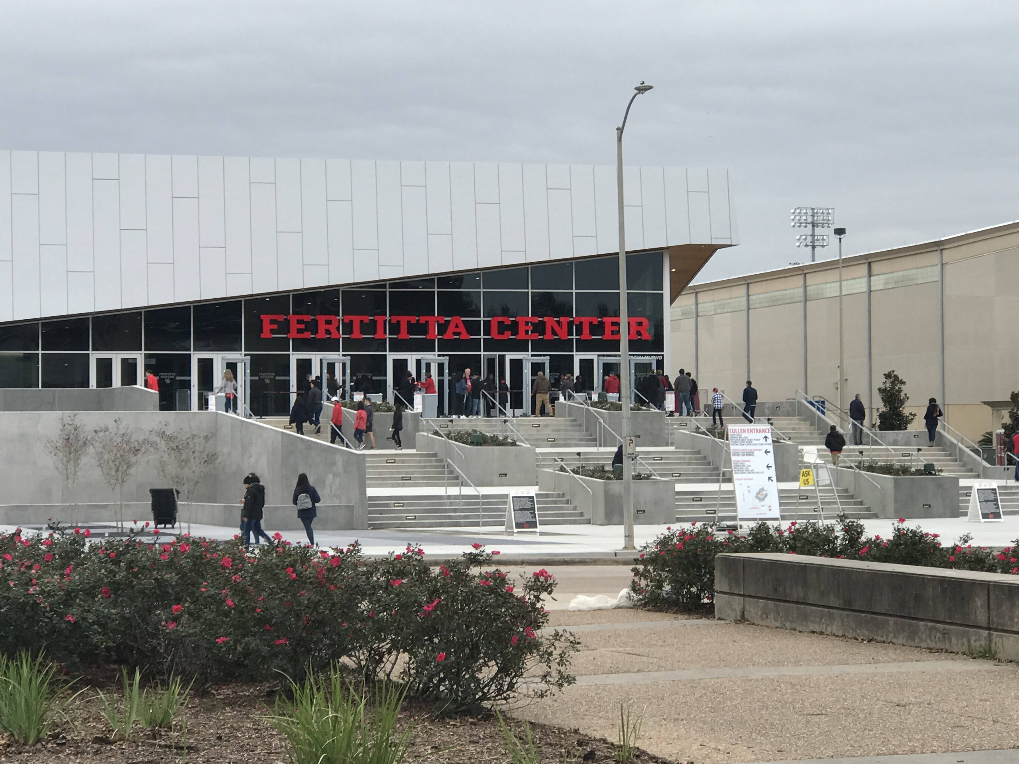 Exterior shot of the newly renovated Fertitta Center on the campus of the University of Houston